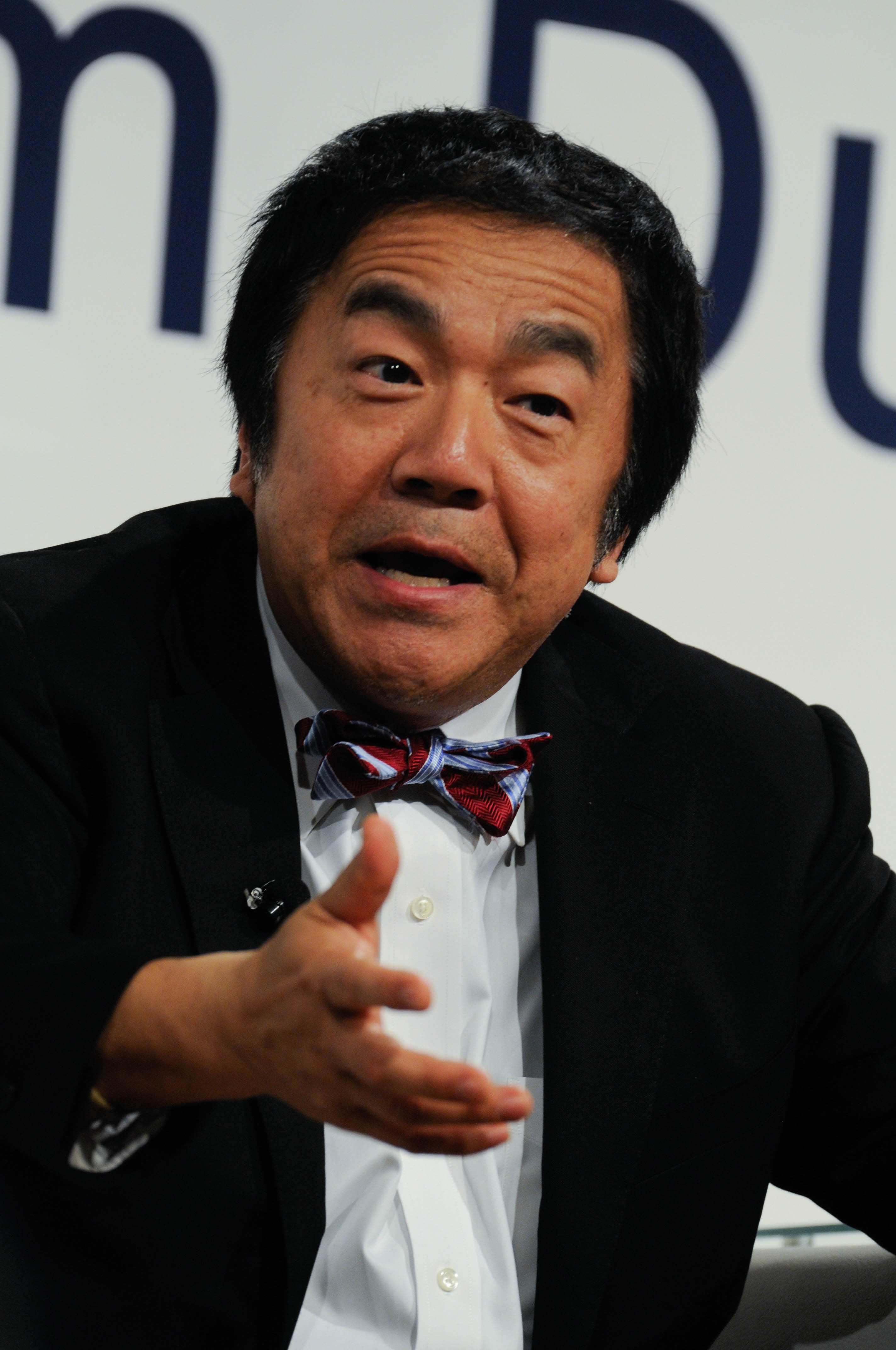 DUBAI, UNITED ARAB EMIRATES, O1DEC10 - John Kao, Chairman and Founder, Institute for Large Scale Innovation, USA; Global Agenda Council on Innovation paticipates in a panel discussion at the World Economic Forum's Open Forum 2010 held in Dubai, 01 December 2010. Copyright (cc-by-sa) © World Economic Forum ( Norbert Schiller)